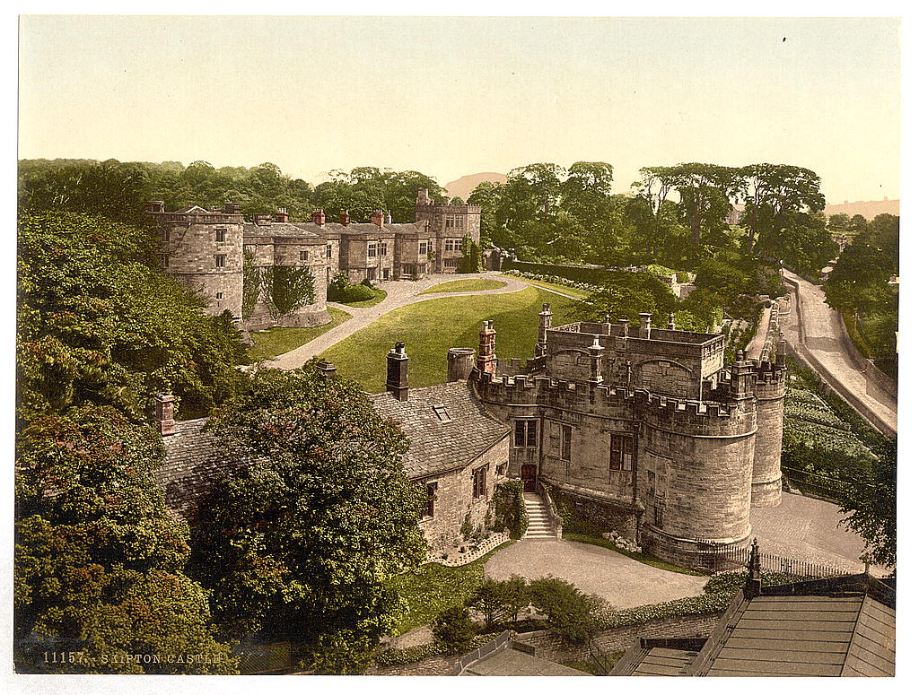 [Skipton Castle, Yorkshire, England] [between ca. 1890 and ca. 1900]. 1 photomechanical print : photochrom, color. Notes: Title from the Detroit Publishing Co., Catalogue J--foreign section, Detroit, Mich. : Detroit Publishing Company, 1905. Print no. "11157". Forms part of: Views of the British Isles, in the Photochrom print collection. Subjects: England--Skipton. Format: Photochrom prints--Color--1890-1900. Repository: Library of Congress, Prints and Photographs Division, Washington, D.C. 20540 USA, Part Of: Views of the British Isles (DLC) 2002696059 More information about the Photochrom Print Collection is available at Higher resolution image is available (Persistent URL): Call Number: LOT 13415, no. 1084 [item]